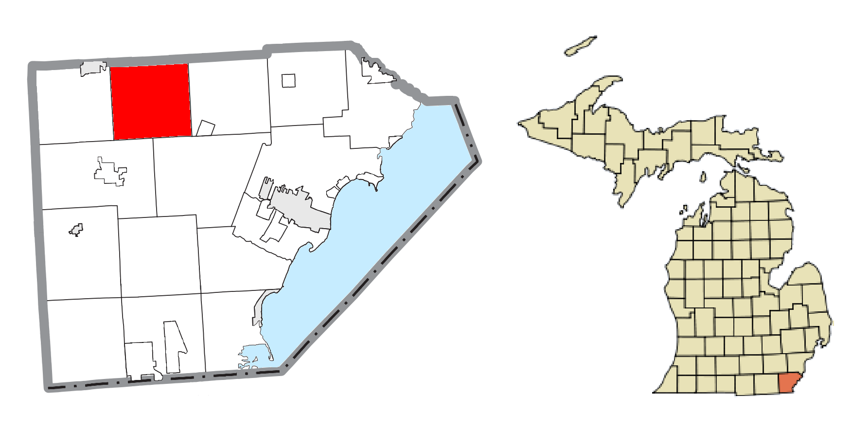 London Township, MI